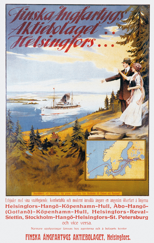 Poster advertising Finska Ångfartygs Aktiebolaget (Finnish Steamboat Ltd Co) in the 1910s. Tourists are attracted by Finland's unspoiled nature.